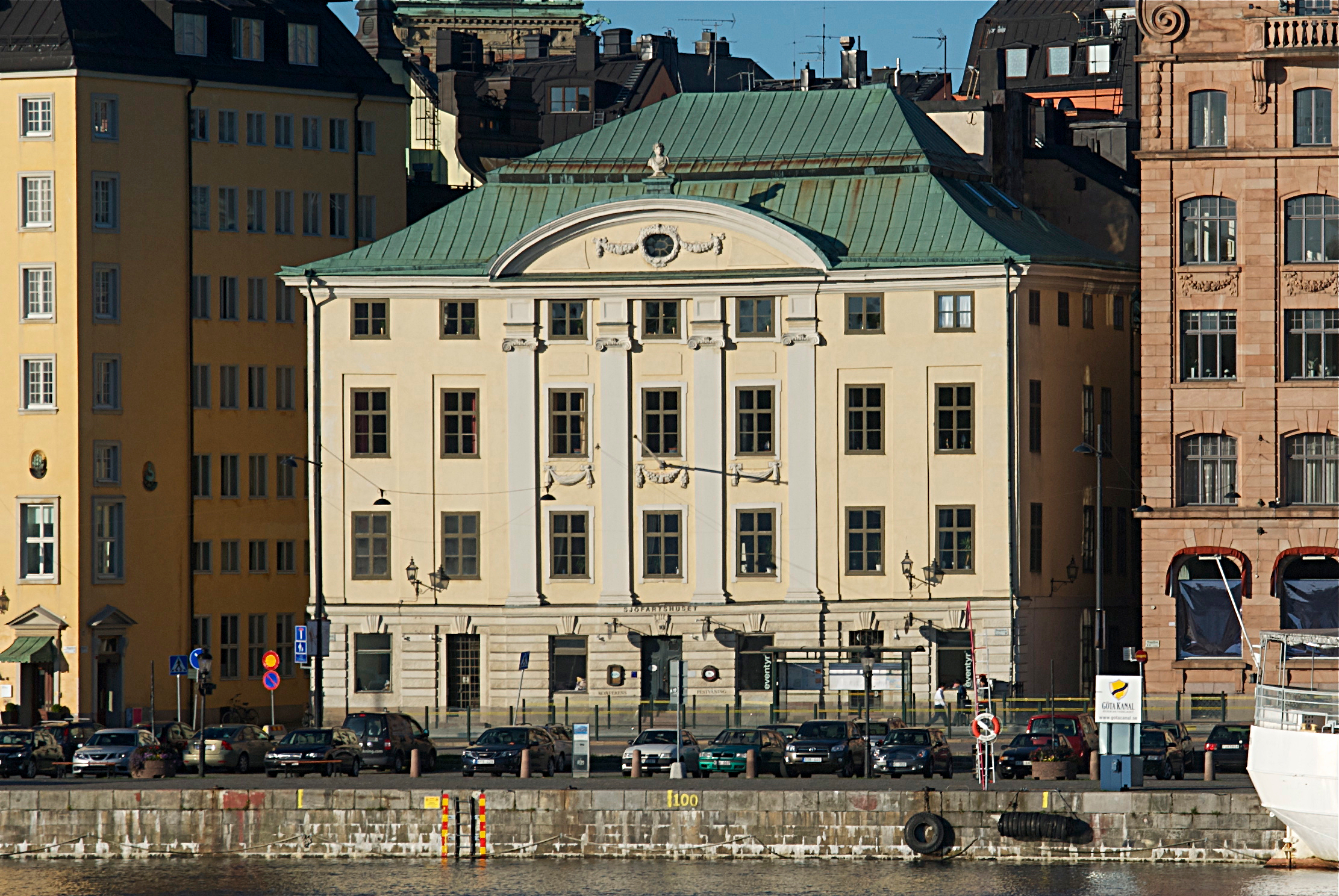 Sjöfartshuset (The Shipping House) at Skeppsbron, Stockholm. Photo taken from Skeppsholmsbron.